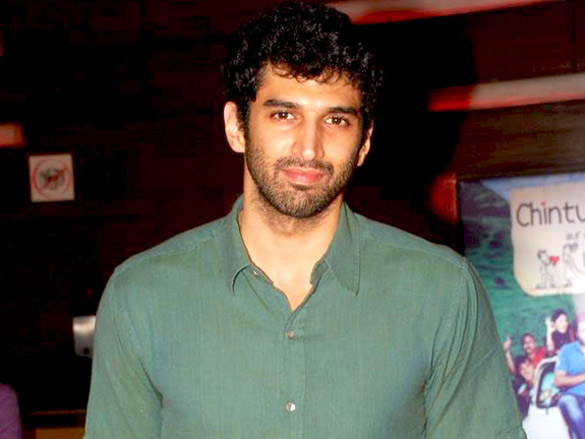 Aditya roy kapur